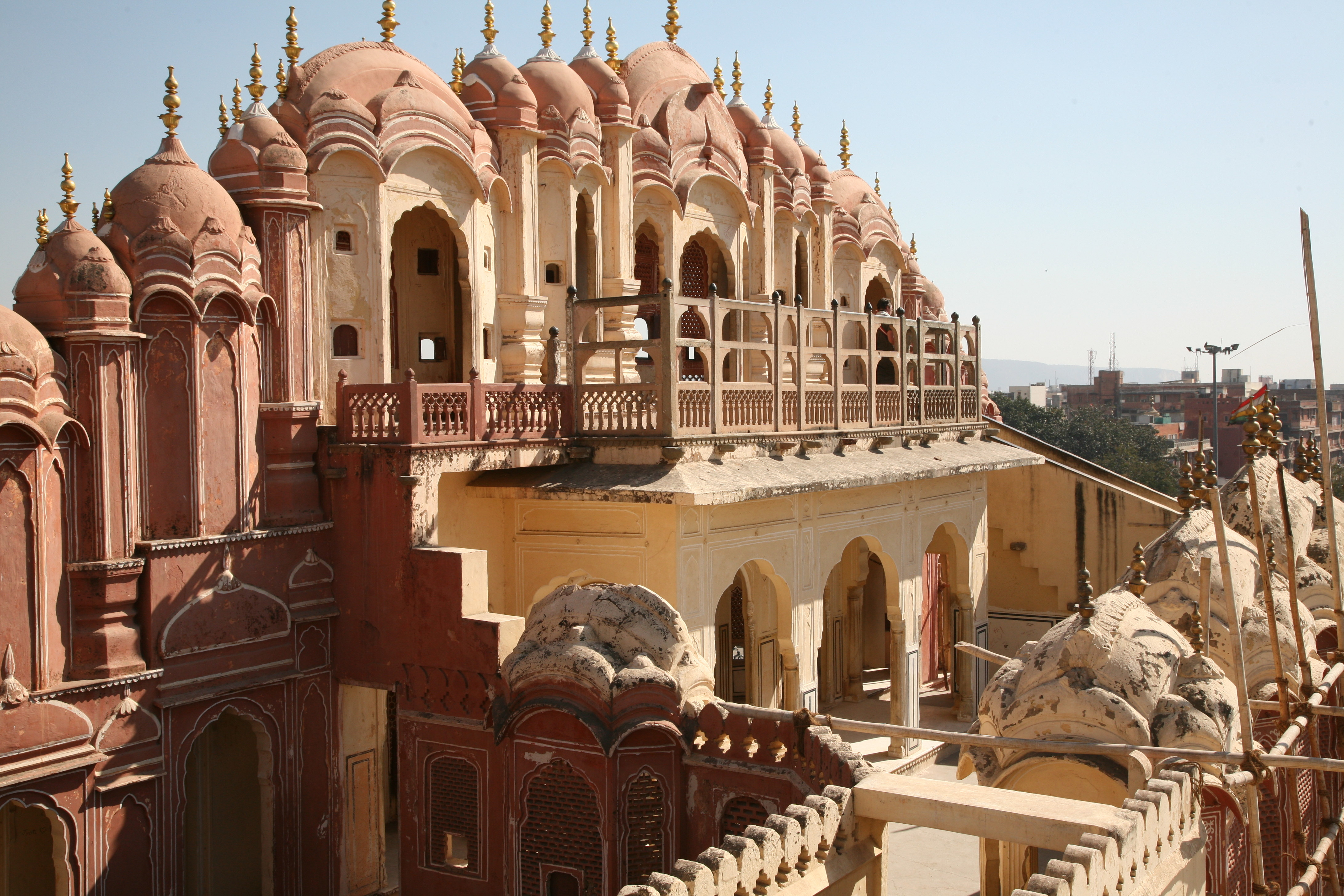 Hawa Mahal (Palace of Winds) in Jaipur. From the top.